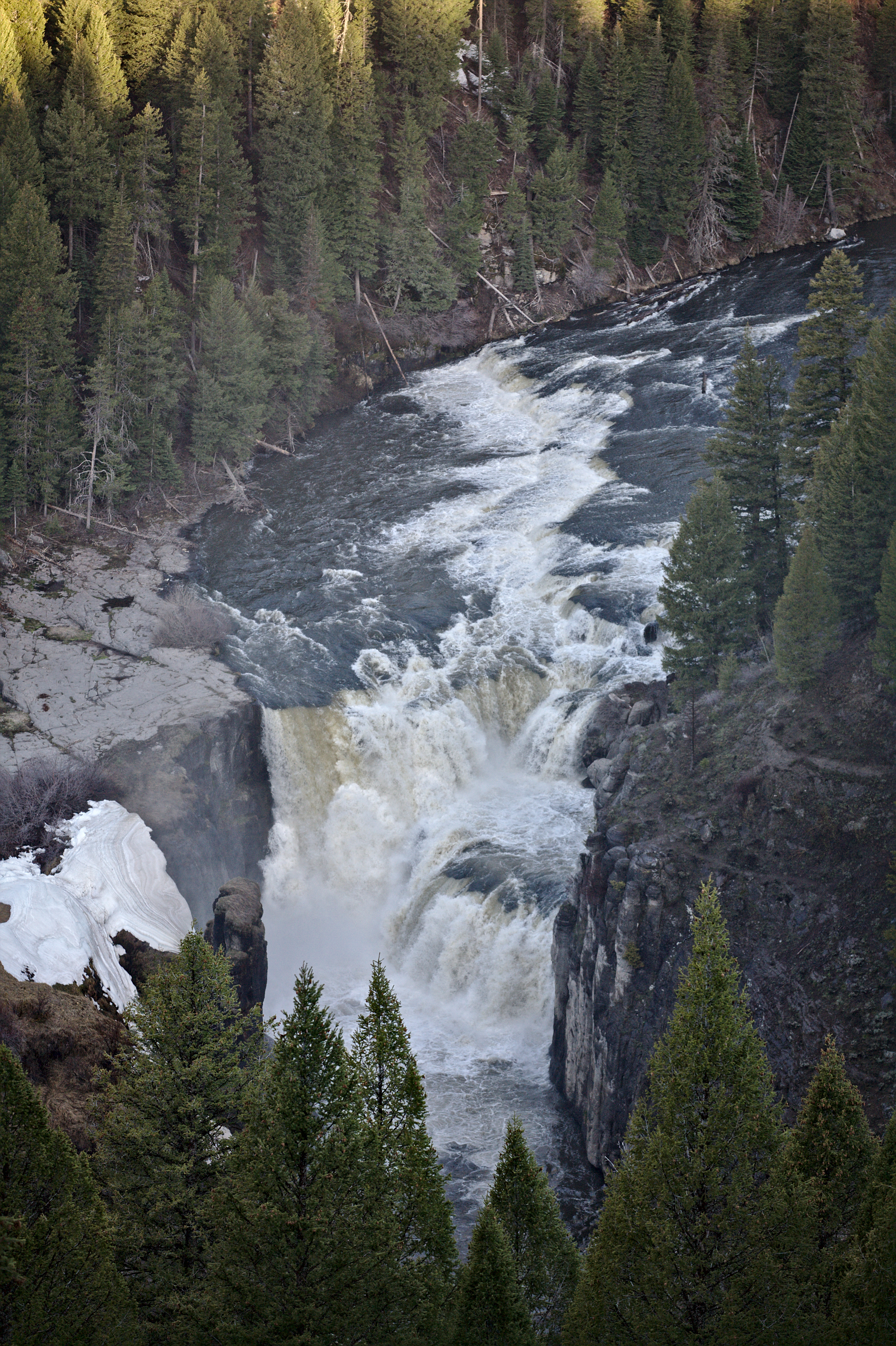 Lower Mesa Falls near Warm River, Idaho